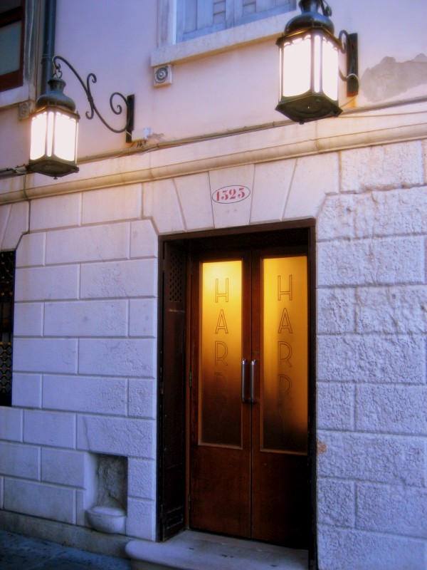 Harry's is a famous bar in Venice. The drink "The Bellini" was invented here, and they're damn proud of it; although I'd say they must be fed up of making them by now, about half the people in there were drinking them when we went in. Has been the haunt of various Hollywood icons over the years while they're in town. It has a lovely 1930's nautical feel to it!